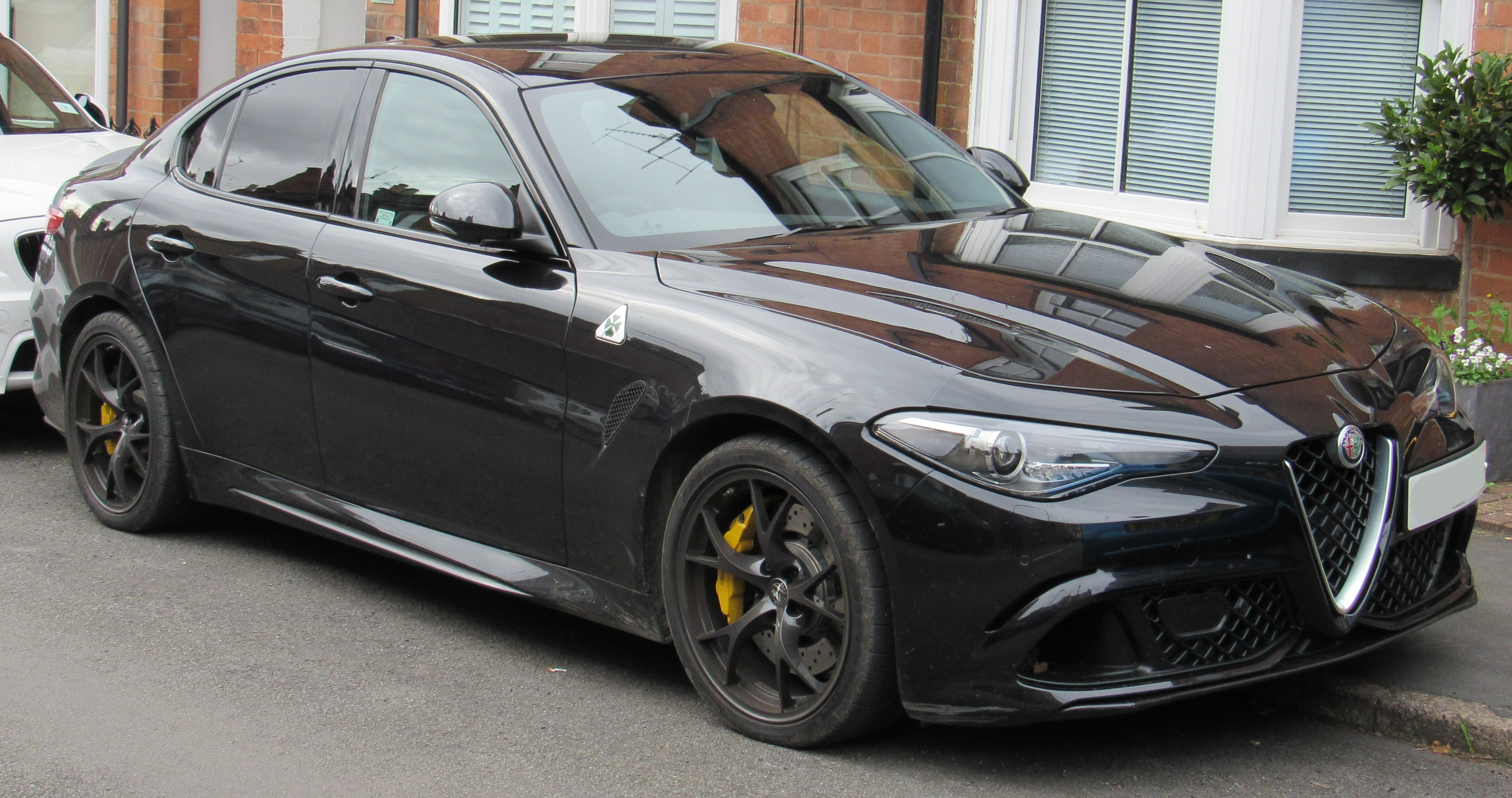 2017 Alfa Romeo Giulia V6 Biturbo Automatic 3.0 Front Taken in Leamington Spa